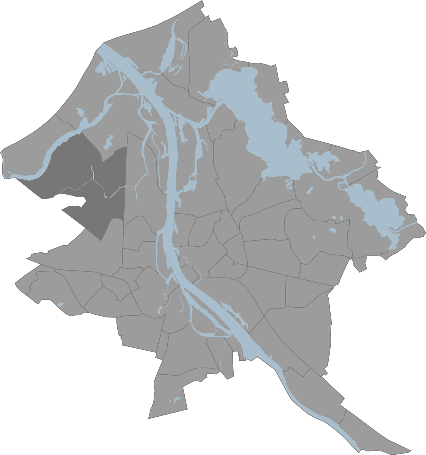 A map of Riga, Latvia with the eponymous commune highlighted